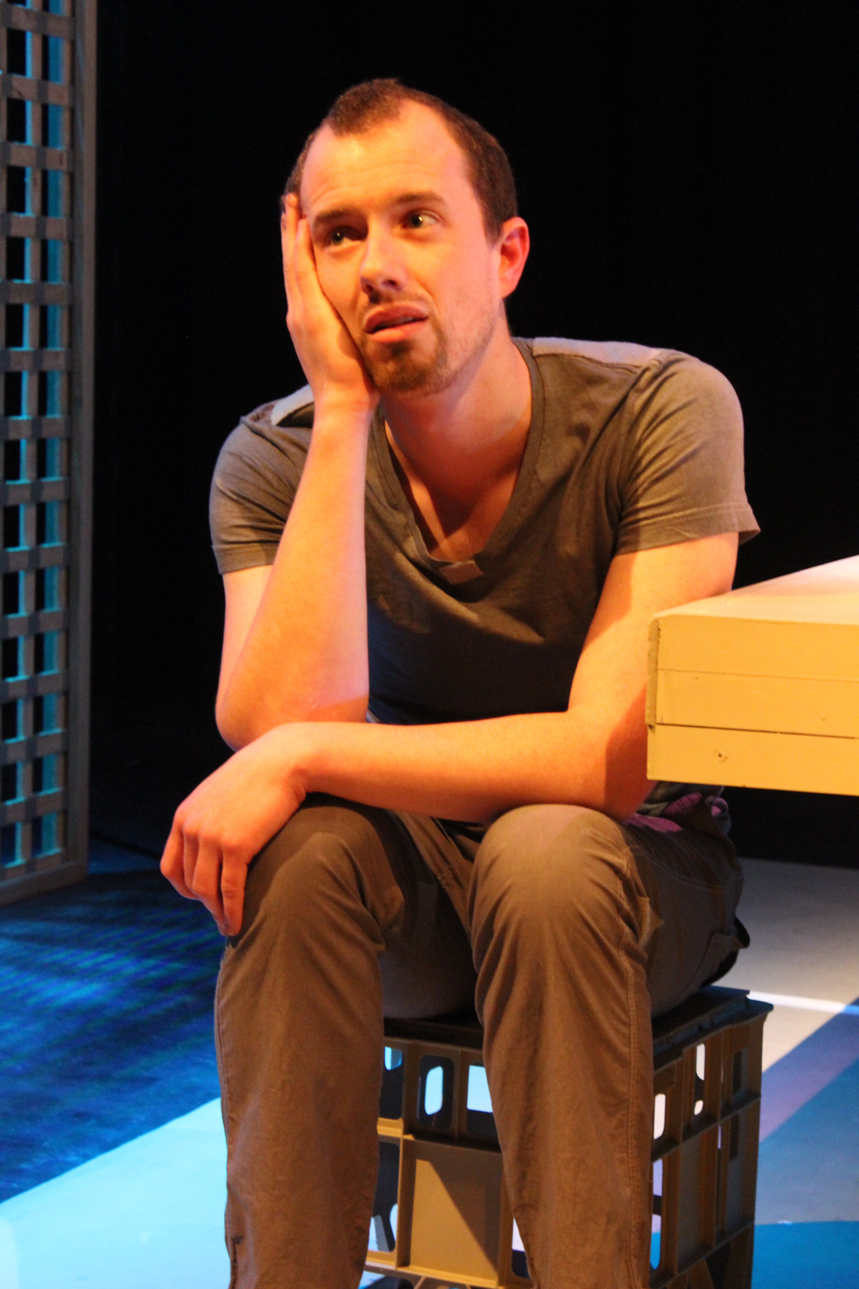 Wallace, played by Robbie Greenwell, in Out of the Ordinary.